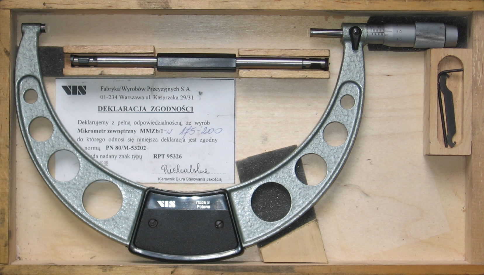 External micrometer for measuring big objects (175 – 200 mm)